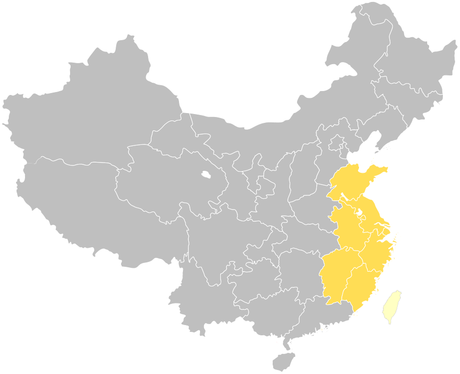 Slight modification of existing PNG file.